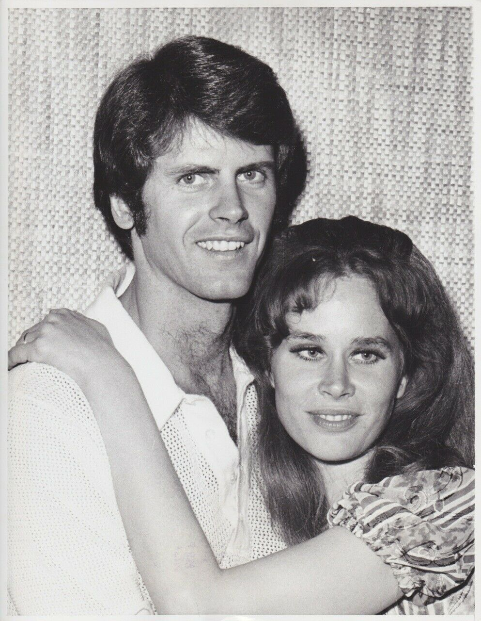 Robert Burton and Karen Black, 1973